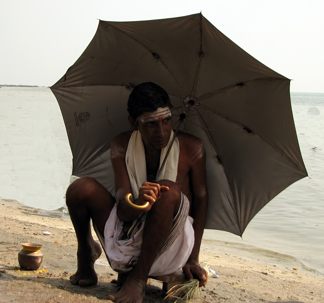 Pujari at Rameshwaram to perform last rites of departed souls – Hindu custom.